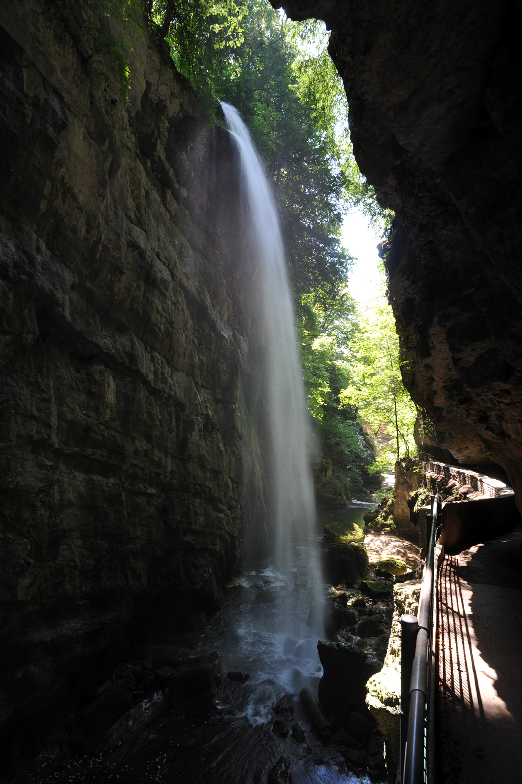 Taubenloch gorge in Biel-Bözingen; Bern, Switzerland. The waterfall «in operation». Because small amounts of water, it is normally directed to the use of a turbine. Only a few days a year some water is redirected for the natural spectacle.